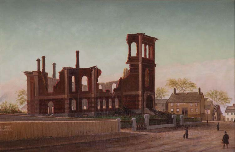 Burnt Ruins of Town House on Dale Avenue (painting by D. Jerome Elwell, Glocester, Massachussets, 1869, collection of the Cape Ann Museum)